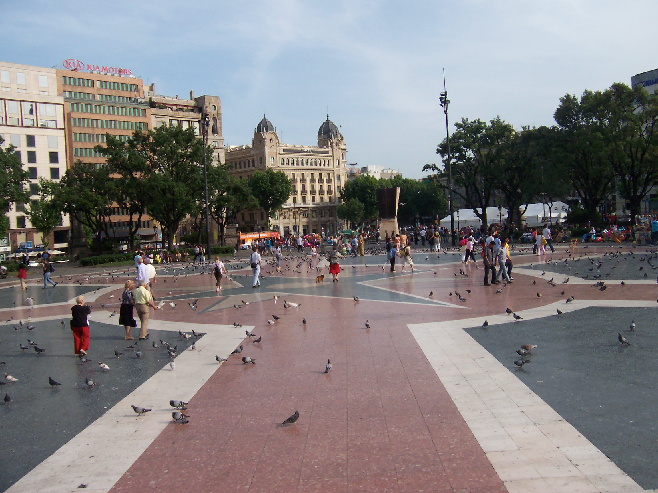 Catalonia Square in Barcelona.